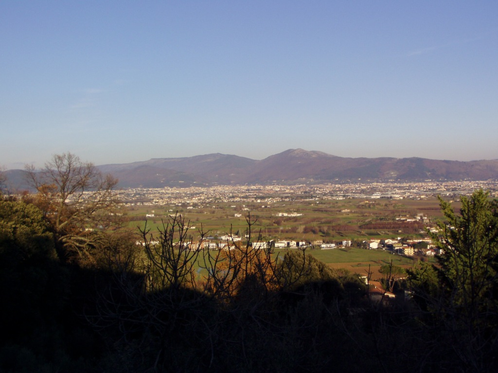 General view of Quarrata (province of Pistoia, Tuscany, Italia)